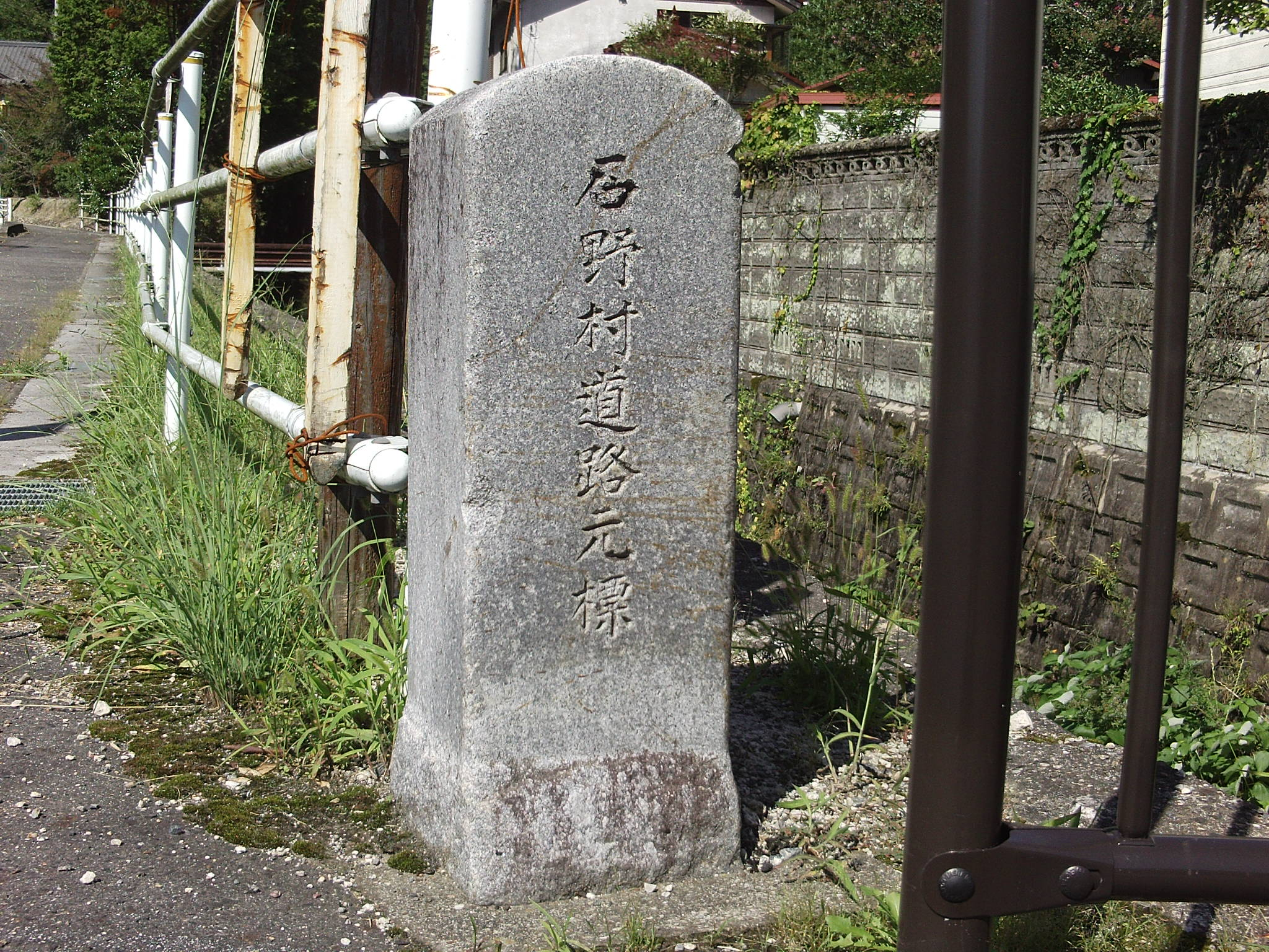 Kilometre zero of Ishino village. (Ishino village, Nishikamo-gun, Aichi.)